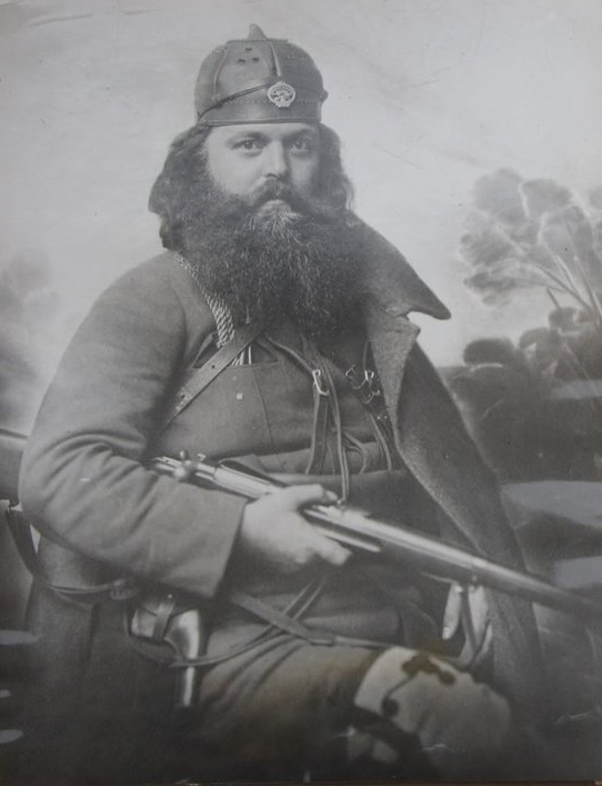 Portrait of bulgarian revolutionary from IMRO Aleko Vasilev - Pasha